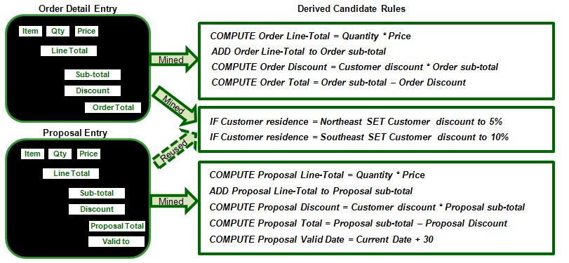 Business Rule Mining: Hybrid Rule Mining